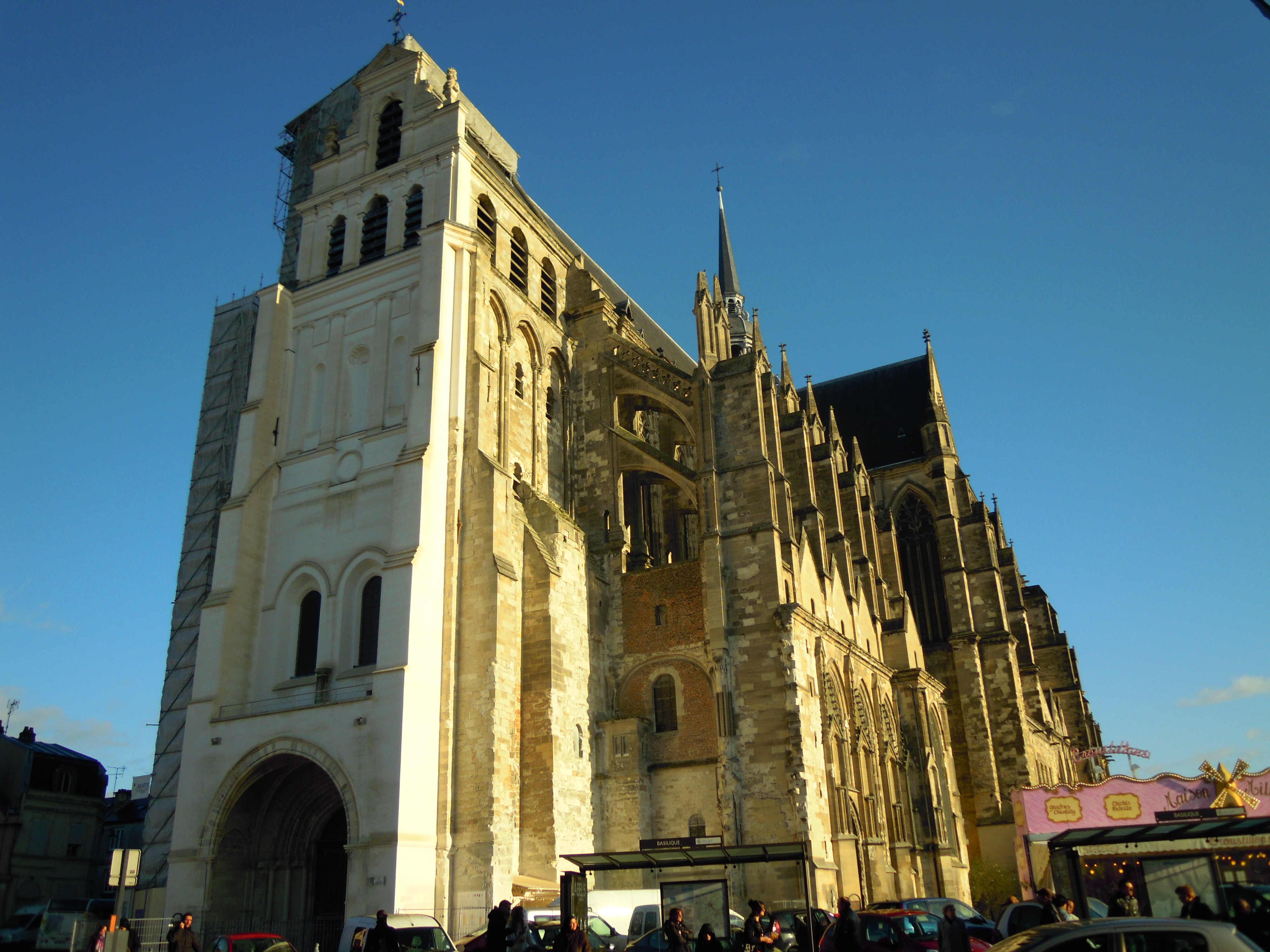 A Digital Photograph of St Quentin Basilica